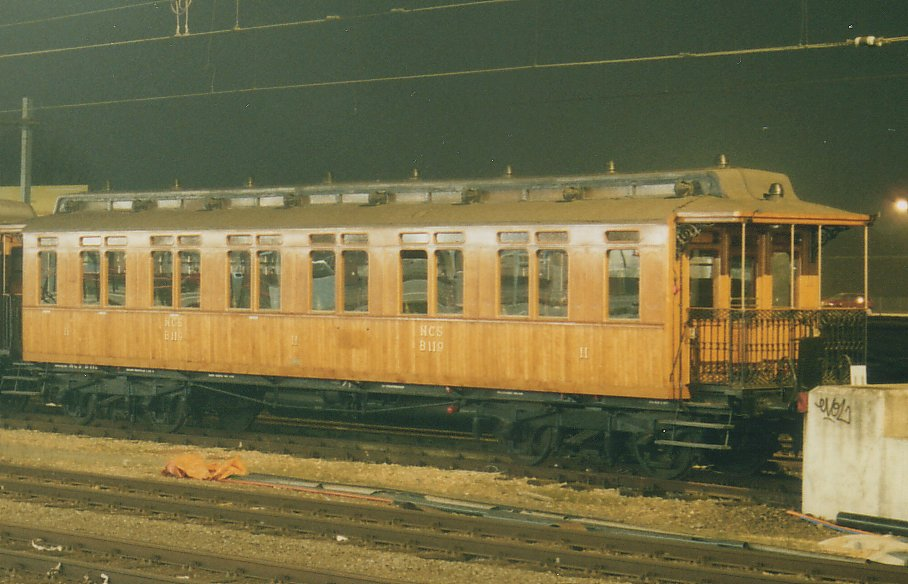 Passenger coach NCS B119 in Amersfoort, where it was stored during the reconstruction of the Dutch Railwaymuseum.